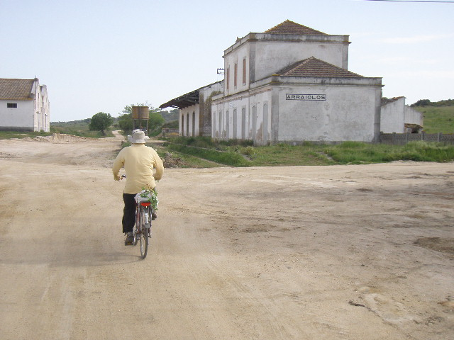 Arraiolos - Ecopista on Railway of Ramal de Mora